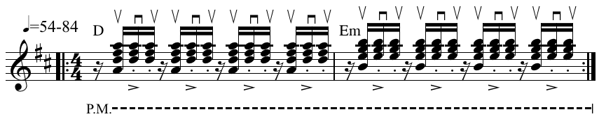 Created by Hyacinth (talk) using Sibelius 5.